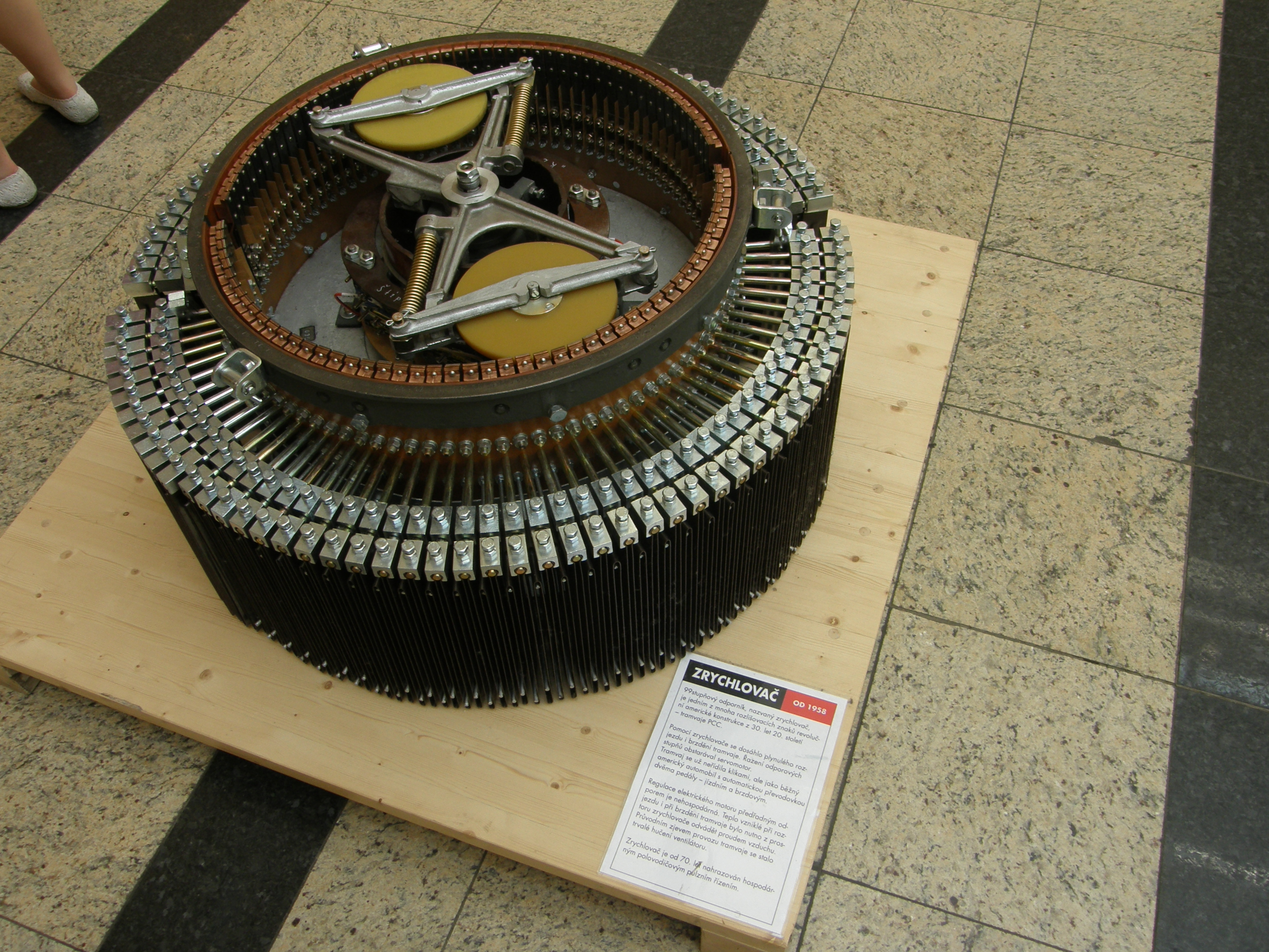 140 years urban mass transportation in Brno exhibition in Vaňkovka.